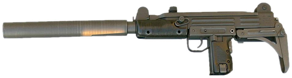 Uzi submachine gun with silencer